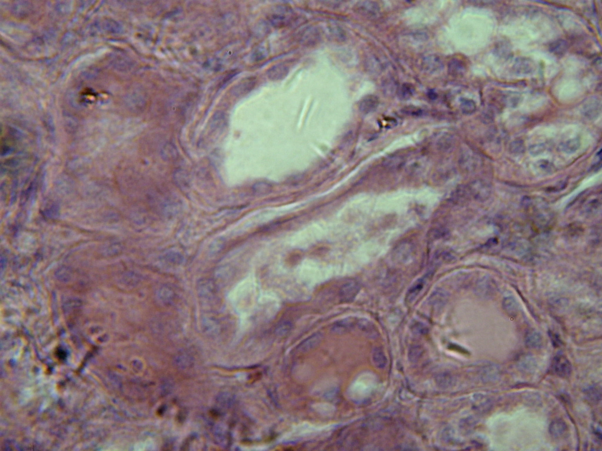 Renal tubules of an individual with Chronic Nephritis